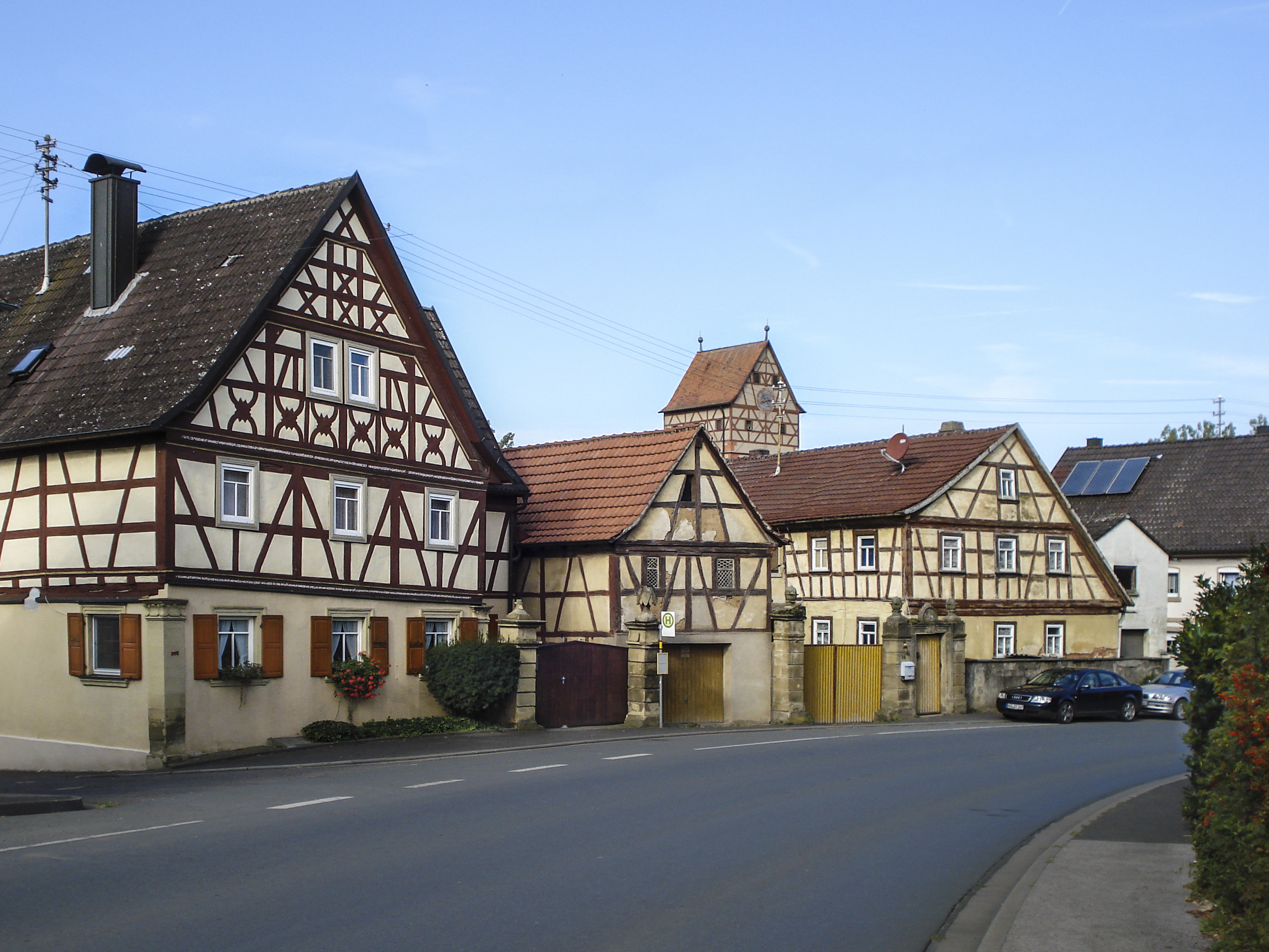 Königsberg i. Bayern, Römershofen